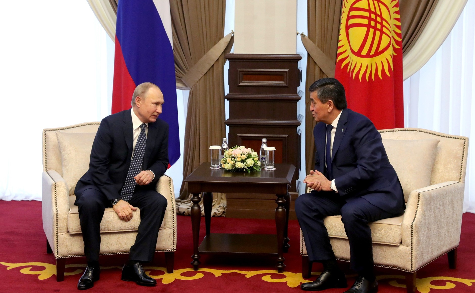 Vladimir Putin made a state visit to Kyrgyzstan at the invitation of President Sooronbay Jeenbekov.